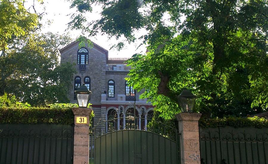 pyrgos